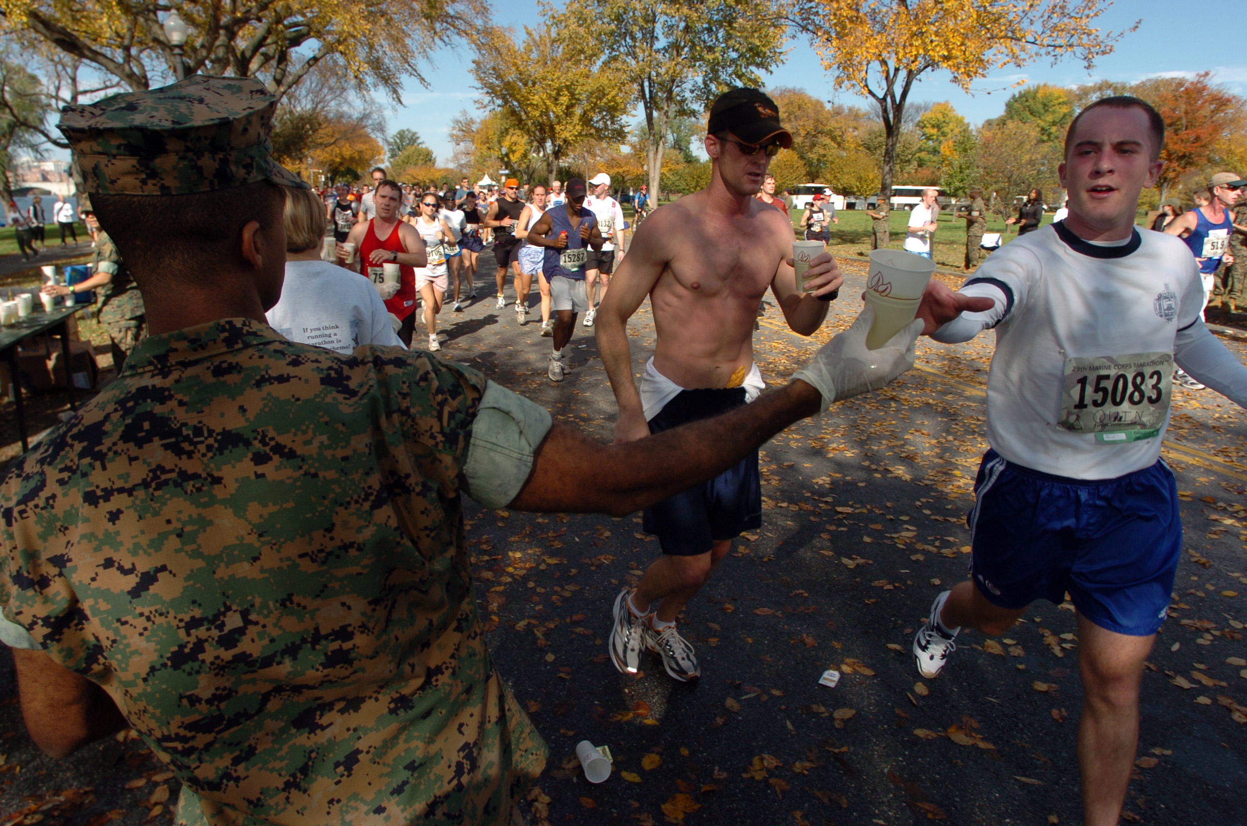 Washington, D.C. (Oct. 31, 2004) – U.S. Marines hand out water and sports drinks during the 29th annual Marine Corps Marathon held in Washington, D.C. Nearly 18,000 people ran the marathon which began at Arlington National Cemetery, cutting through Georgetown and downtown Washington, D.C. U.S. Navy photo by Photographer's Mate 1st Class Shane T. McCoy (RELEASED)